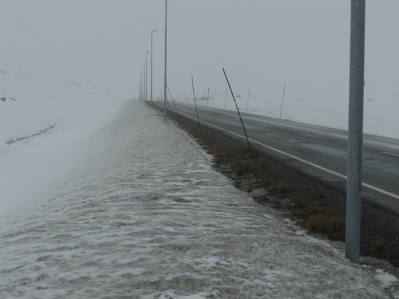 Droga w okolicach Haukeliseter, Norwegia; Road, close to Haukeliseter, Norway